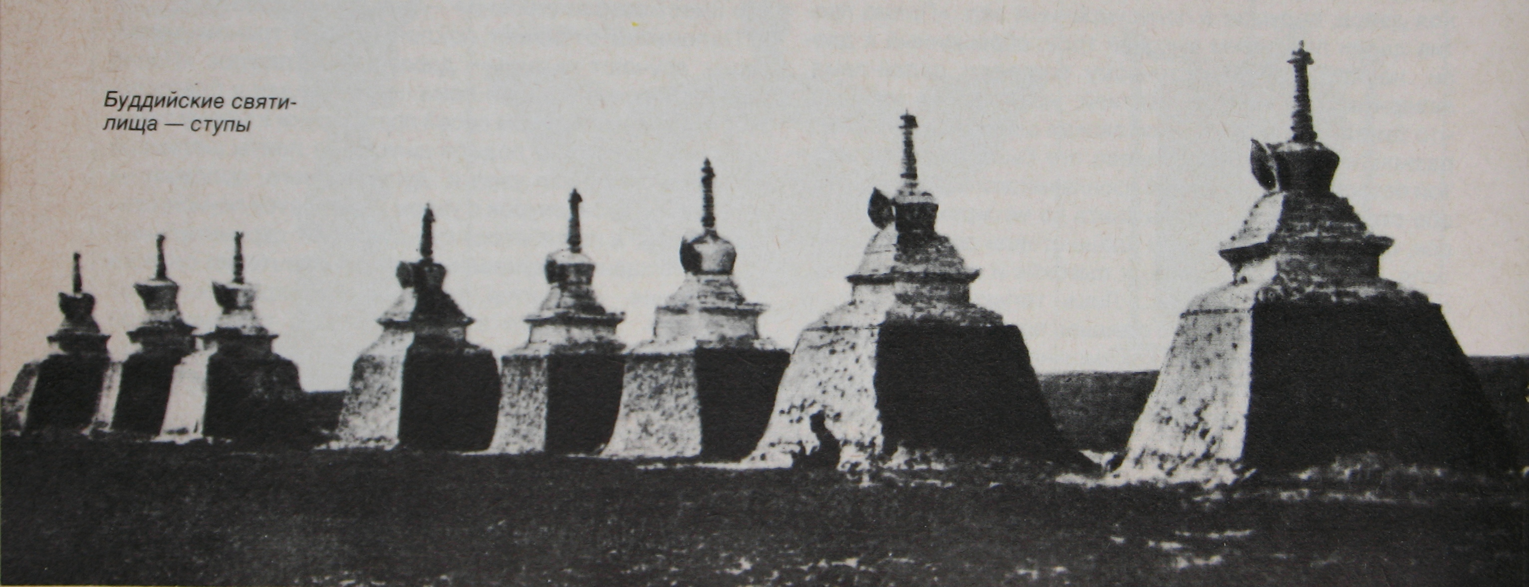 Gombojab Tsybikov photo in Tibet. Буддийские ступы. Фотография сделана во Внутренней Монголии либо Тибете скрытой камерой через прорезь в молитвенной мельнице.